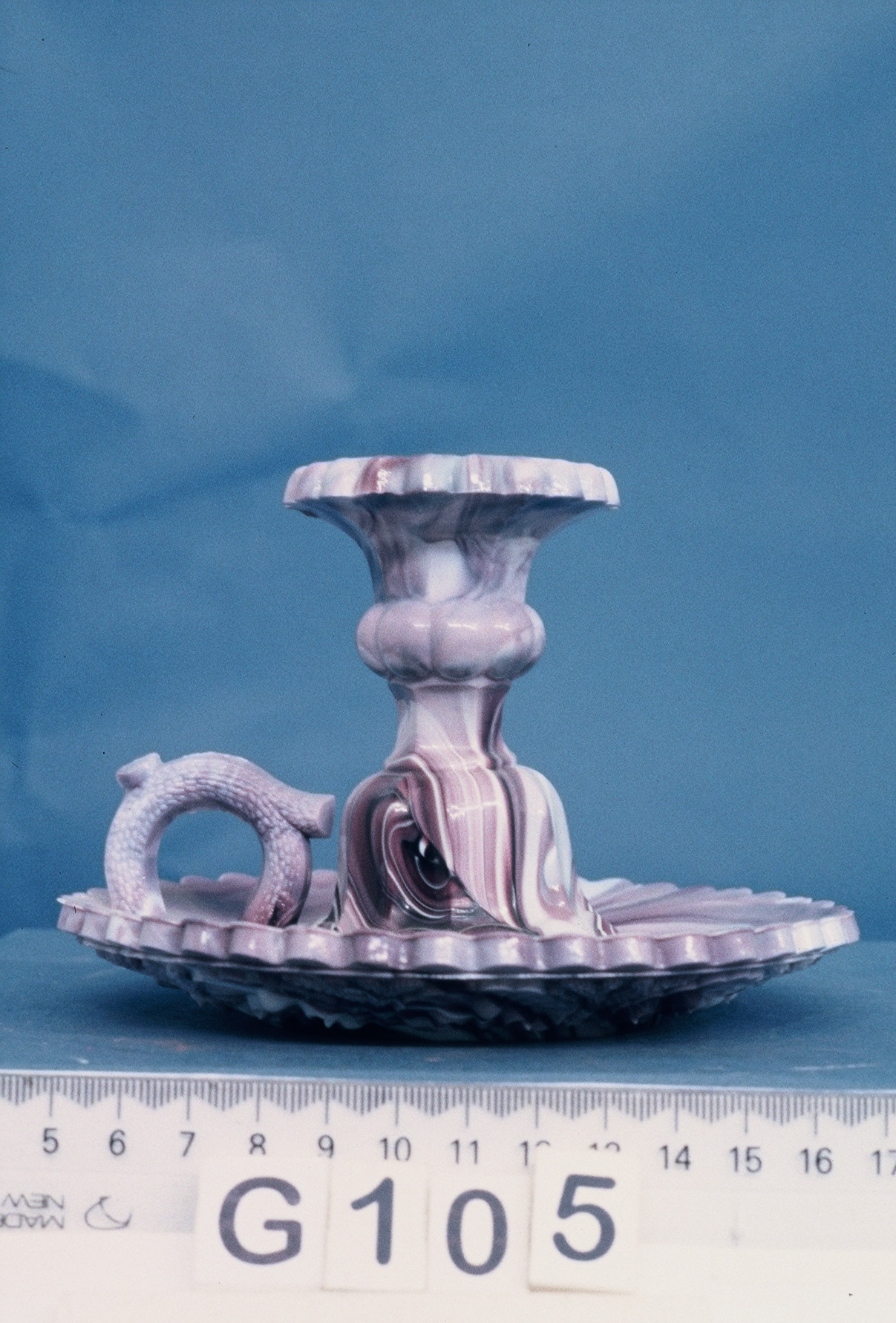 Candlestick, lithyalin glass. "A polished opaque glass marbled in red and other strong colours, imitating the appearance of semi-precious stones. It was produced from 1828 until 1840 by Friedrich Egermann in Bohemia, by whom it was patented under this named, it was used for a wide variety of objects and in many styles of decoration. Imitations of this coloured opaque glass were made at many factories until circa 1855. From Newman, H., 1977, "An Illlustrated Dictionary of Glass", p186